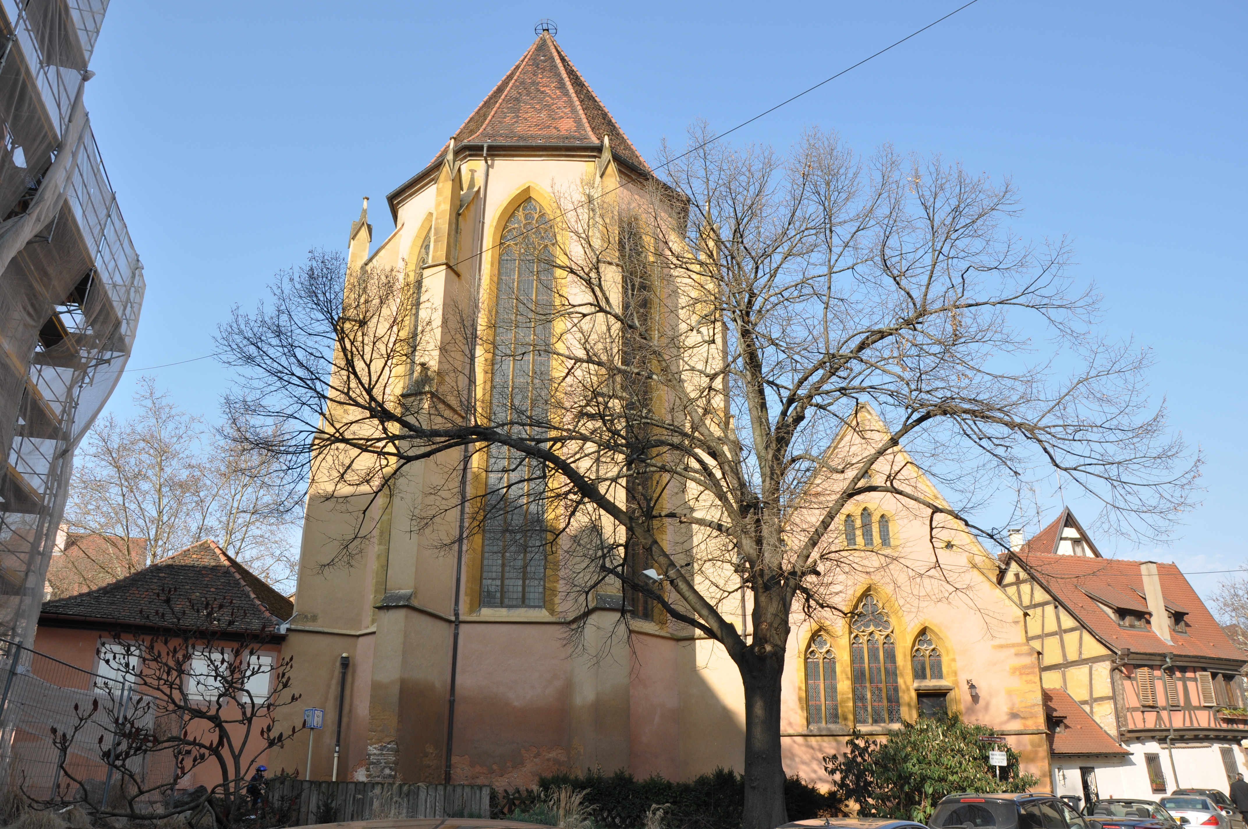 The Historical Temple Saint-Matthieu in Alsace, France.